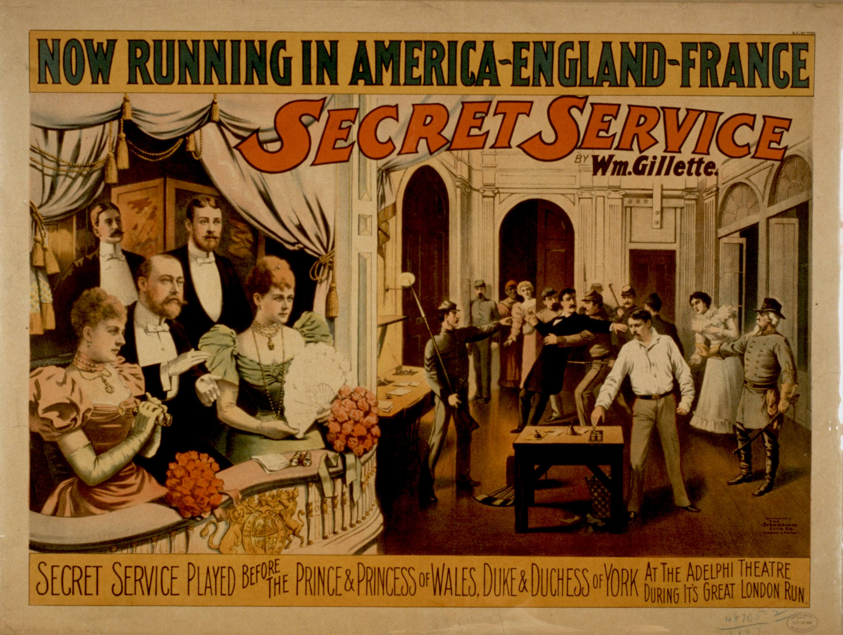 1897 poster for Secret Service by William Gillette.